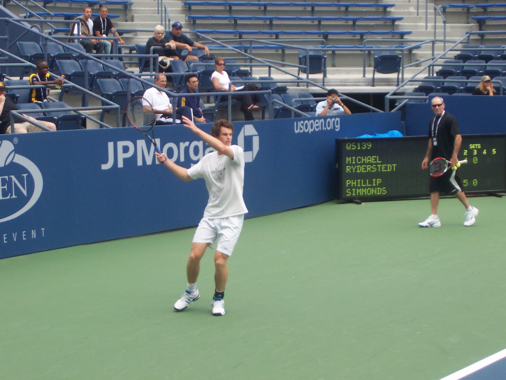 Andy Murray practicing at the 2007 US Open while coach Brad Gilbert watches.